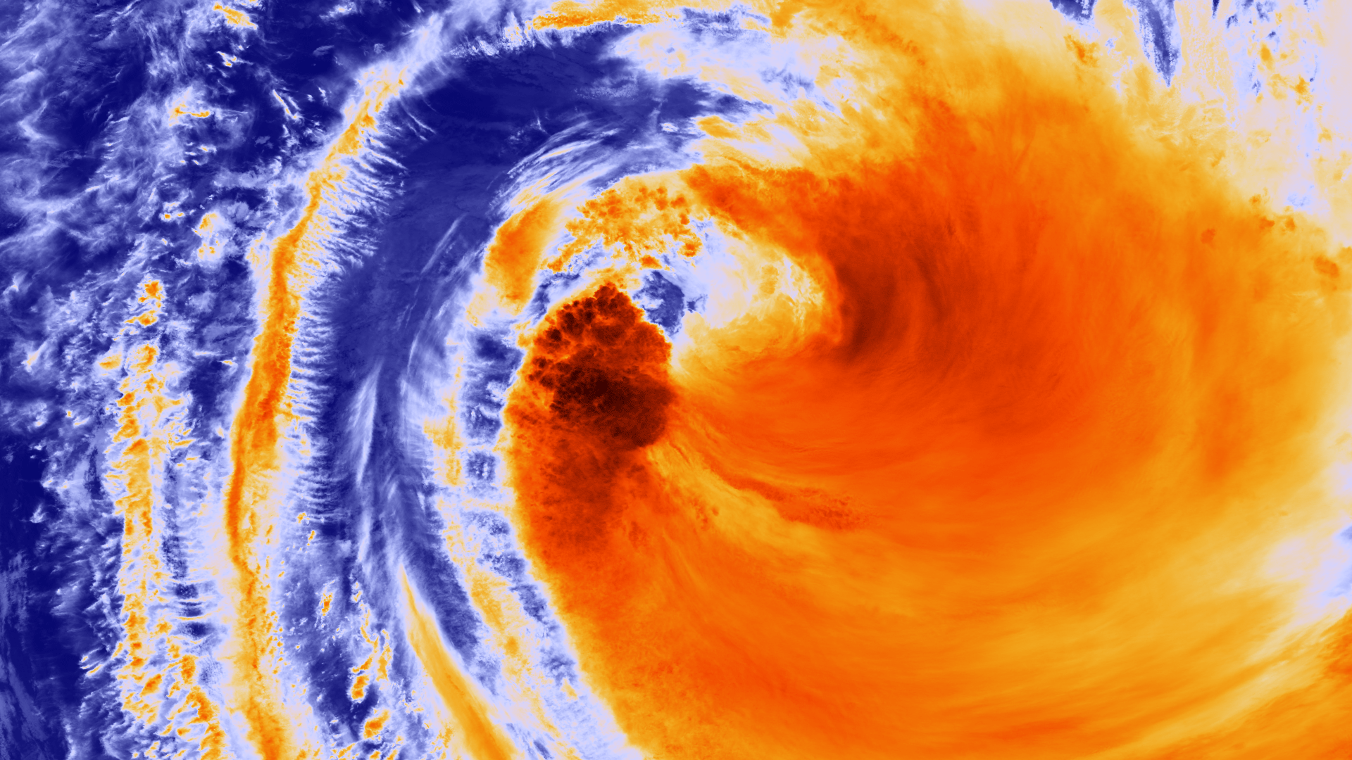 Visible Infrared Imaging Radiometer Suite (VIIRS) instrument aboard the NOAA/NASA Suomi NPP satellite captured this color-enhanced infrared image of Tropical Cyclone Cook in the South Pacific at 2:35 am on April 11, 2017.